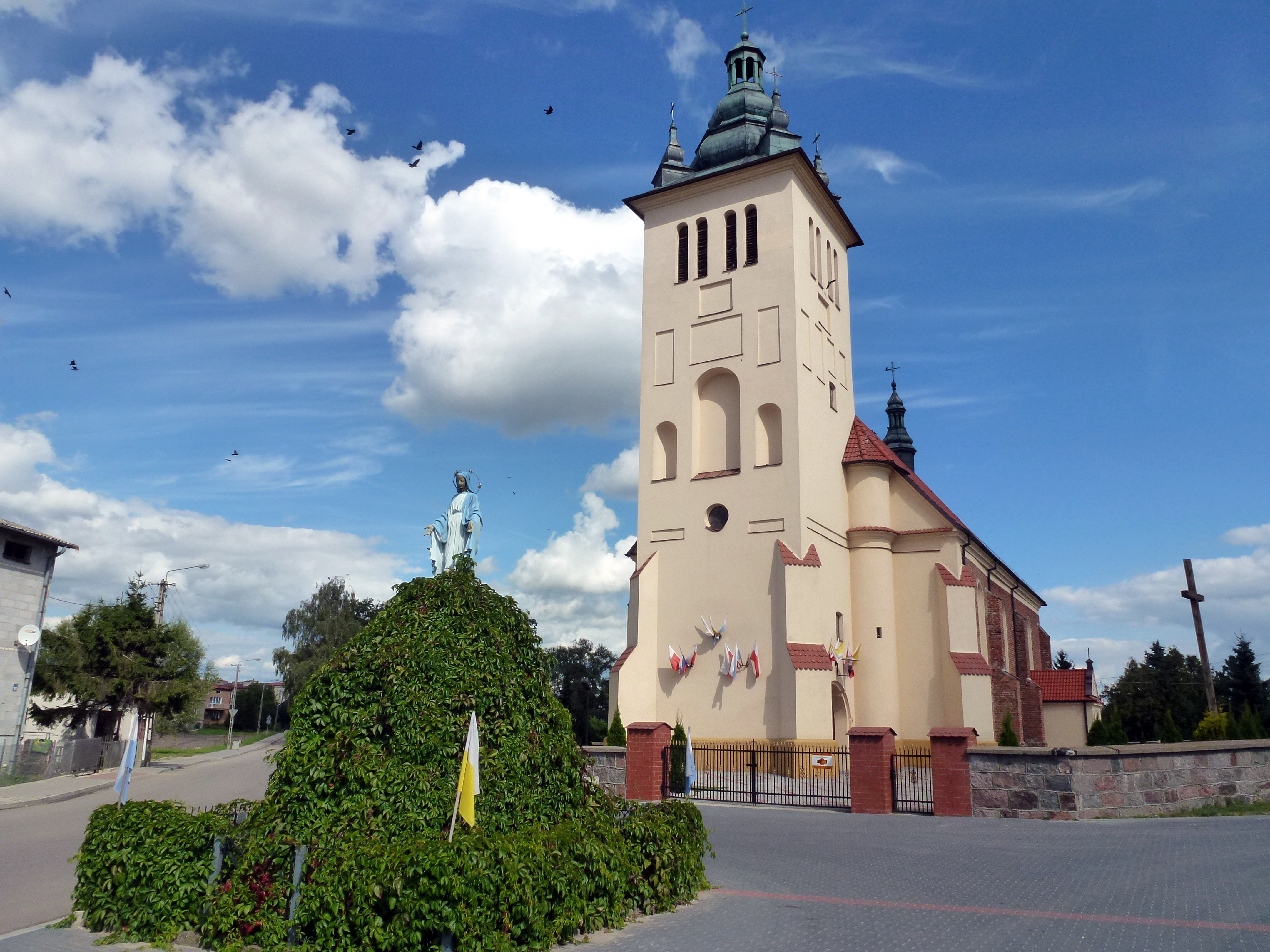 16 century church in Krzynowloga Mala, Poland